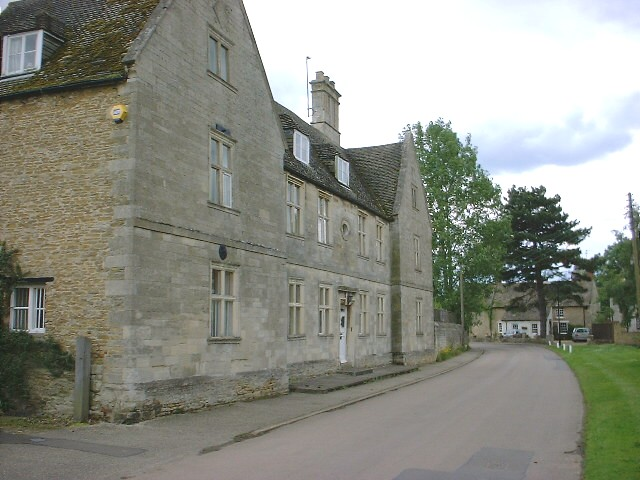 The Manor House in Chapel street, Warmington